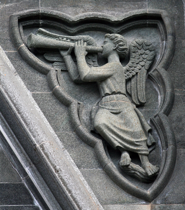 Angel from the west wall of Nidarosdomen.